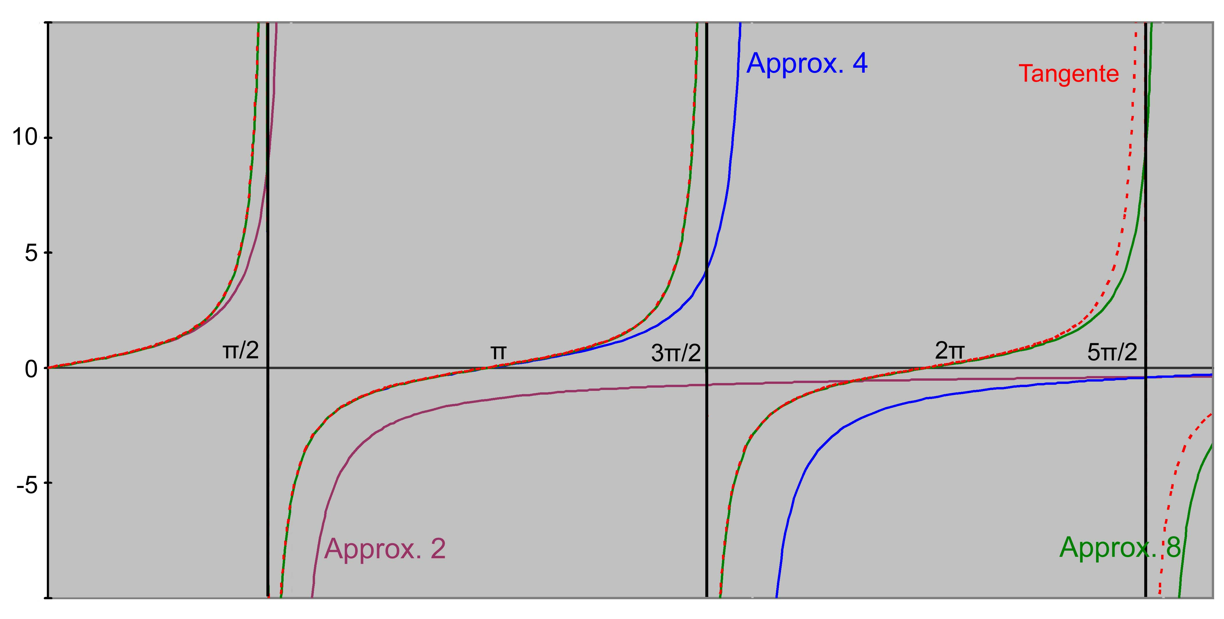 Uniform convergence of Padé approximant to the tangent function